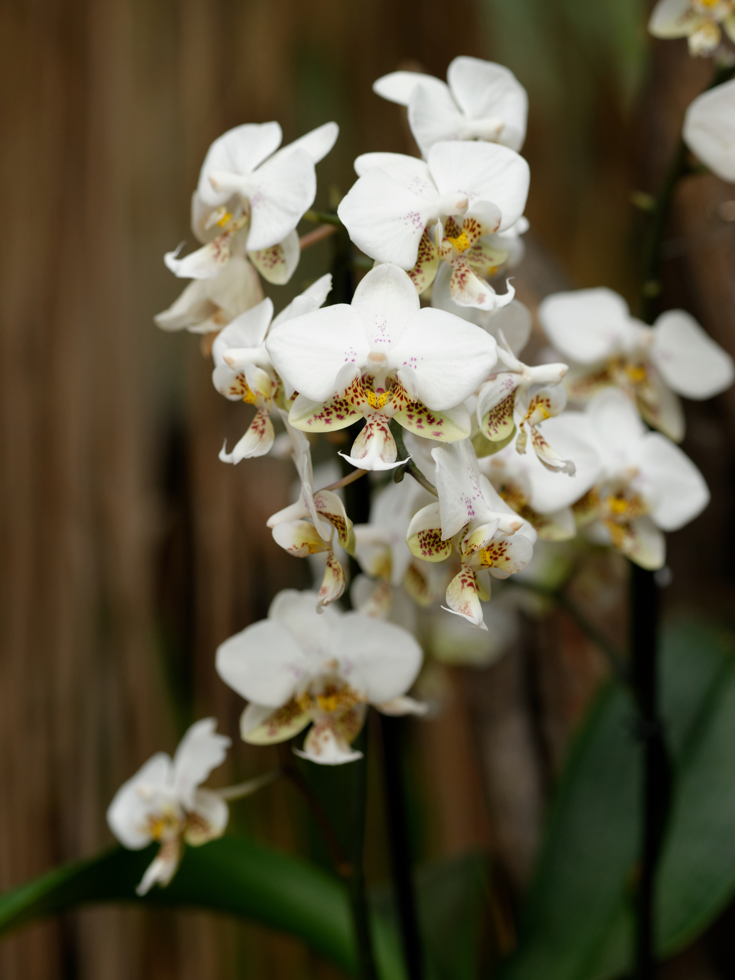 Phalaenopsis stuartiana from the ‘1001 Orchids’ exhibition at the Jardin des Plantes in Paris.